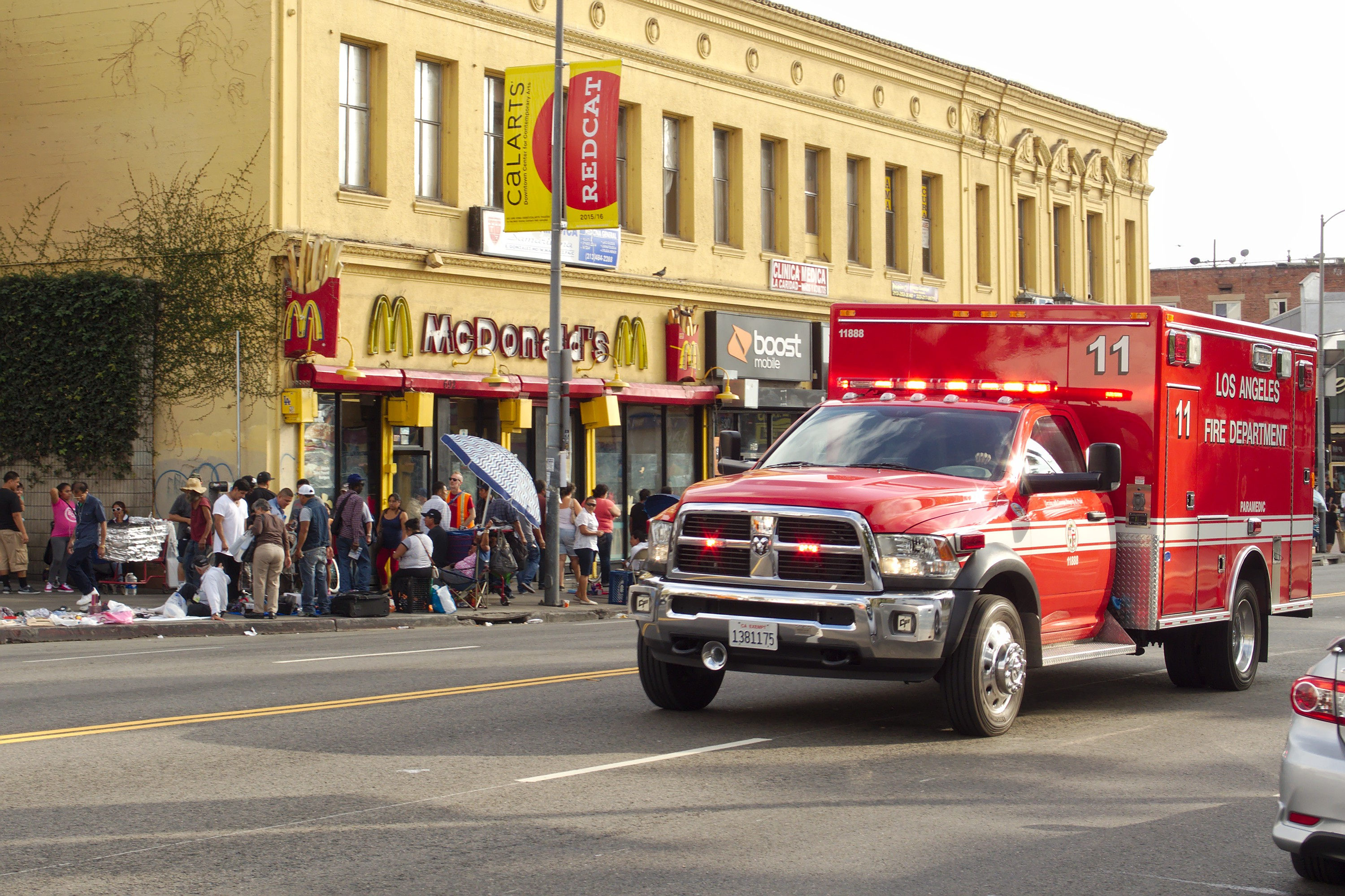 LAFD rescue ambulance 11888 on Alvarado Street near MacArthur Park, with sidewalk peddlers in the background near a McDonald's restaurant.